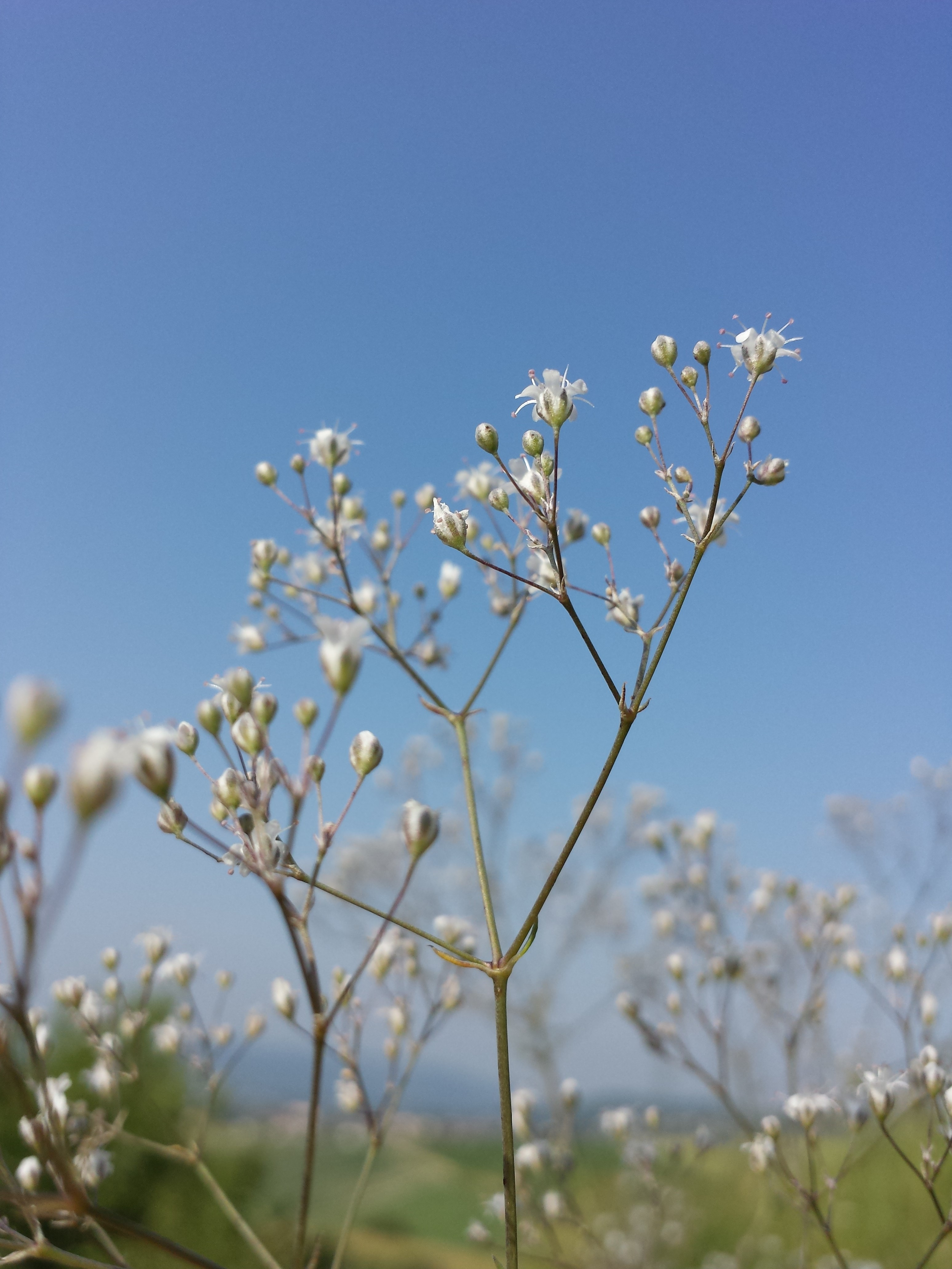 Inflorescence Taxonym: Gypsophila paniculata ss Fischer et al. EfÖLS 2008 ISBN 978-3-85474-187-9 Location: border of an abandoned sand pit near Tresdorf, district Korneuburg, Lower Austria - ca. 200 m a.s.l. Habitat: dry grassland on sand (Korneuburg formation)